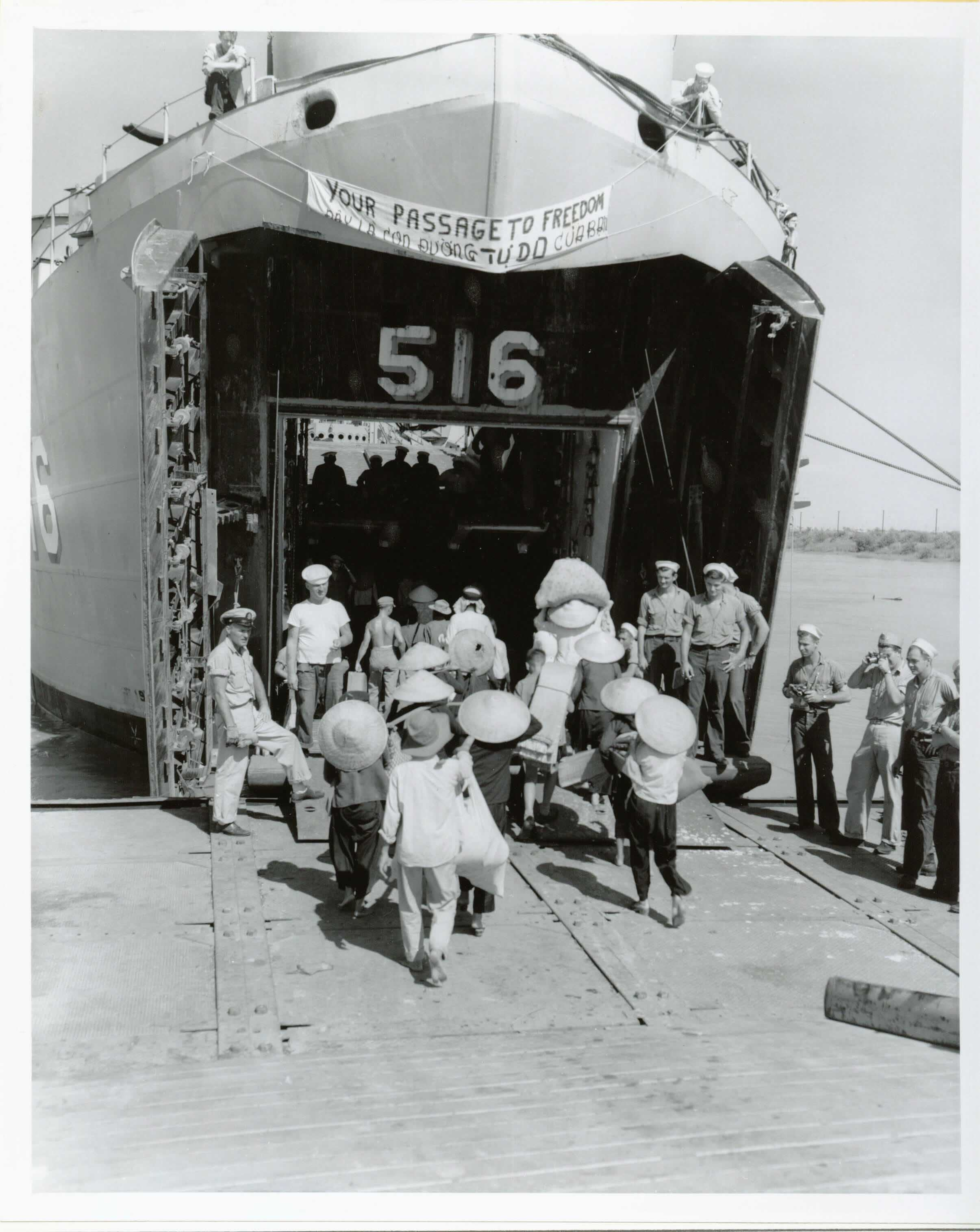 Washington Navy Yard -- Vietnamese refugees board LST 516 for their journey from Haiphong, North Vietnam, to Saigon, South Vietnam during Operation Passage to Freedom, October 1954. This operation evacuated thousands of Vietnamese refugees from the then newly created Communist North Vietnam to the Democratic South Vietnam. By the end of the operation, the Navy had carried to freedom more then 293,000 immigrants, vehicles, and other cargo. The Naval Historical Center and Surface Navy Association are seeking Navy veterans and former Vietnamese refugees who witnessed and participated in this little known rescue. U.S. Navy photo. (RELEASED)